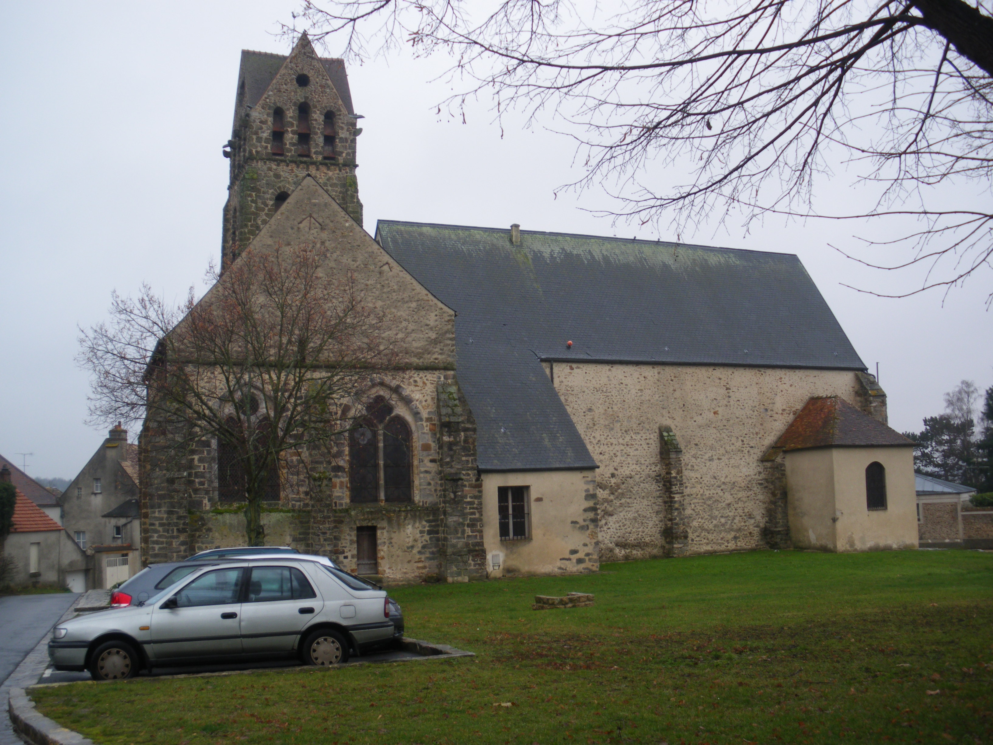 Briis sous Forges Church, Essonne, France